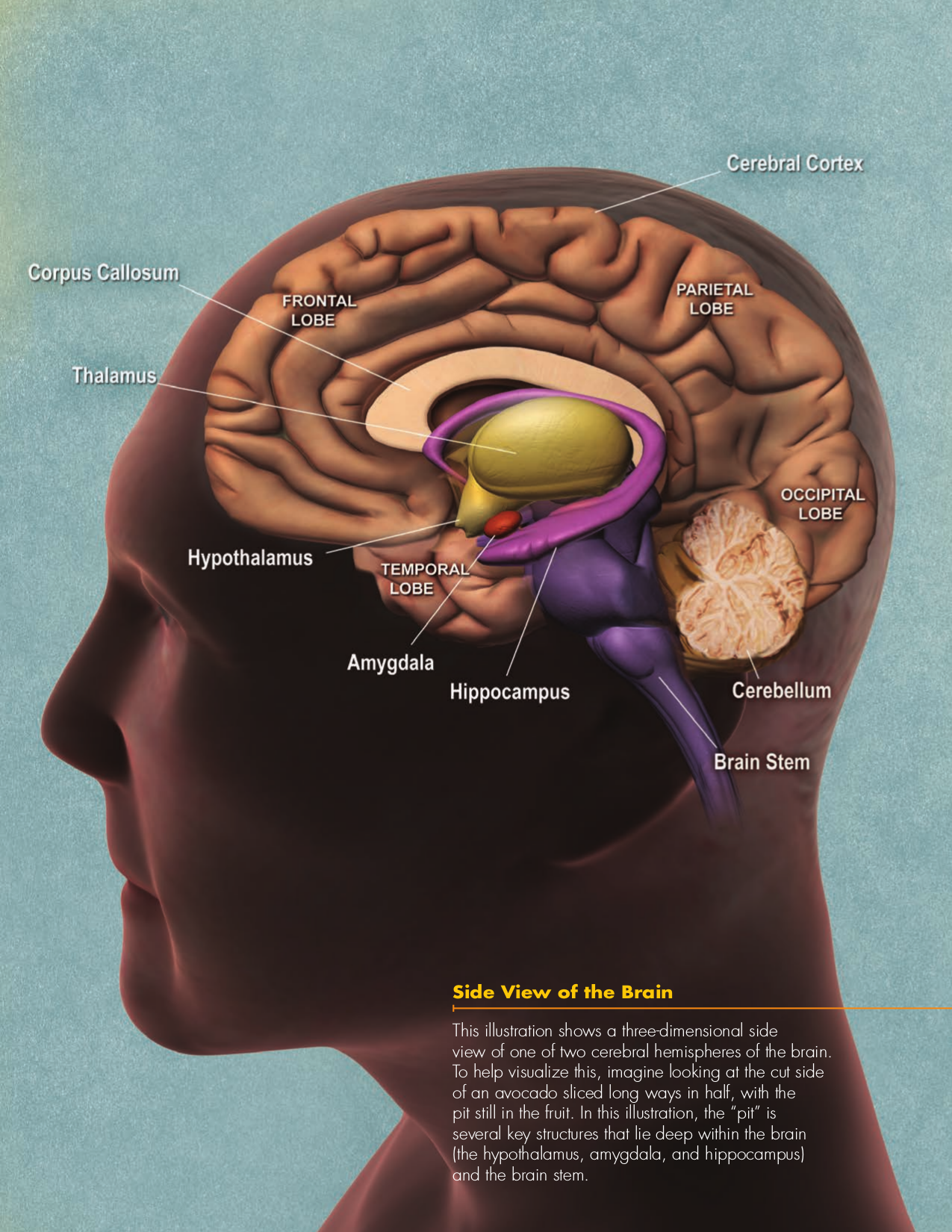 Drawing of the human brain, from "Alzheimer's Disease: Unraveling the mystery" by the National Institute on Aging, National Institutes of Health, United States Department of Health and Human Services. This drawing shows several of the most important brain structures.